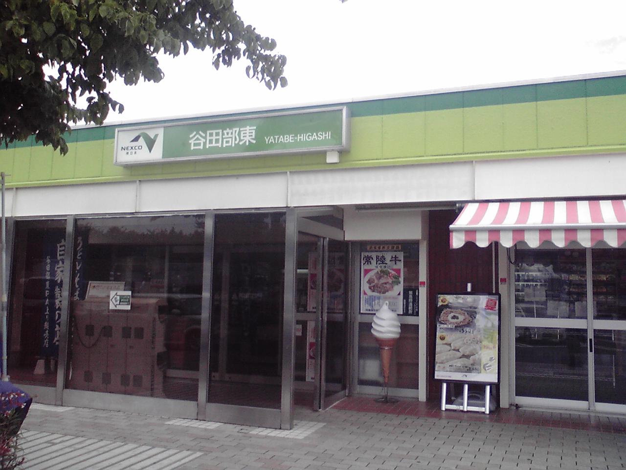 This is the Joban Expressway Yatabe-Higashi parking area.